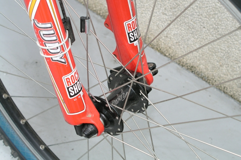 RockShox Judy SL